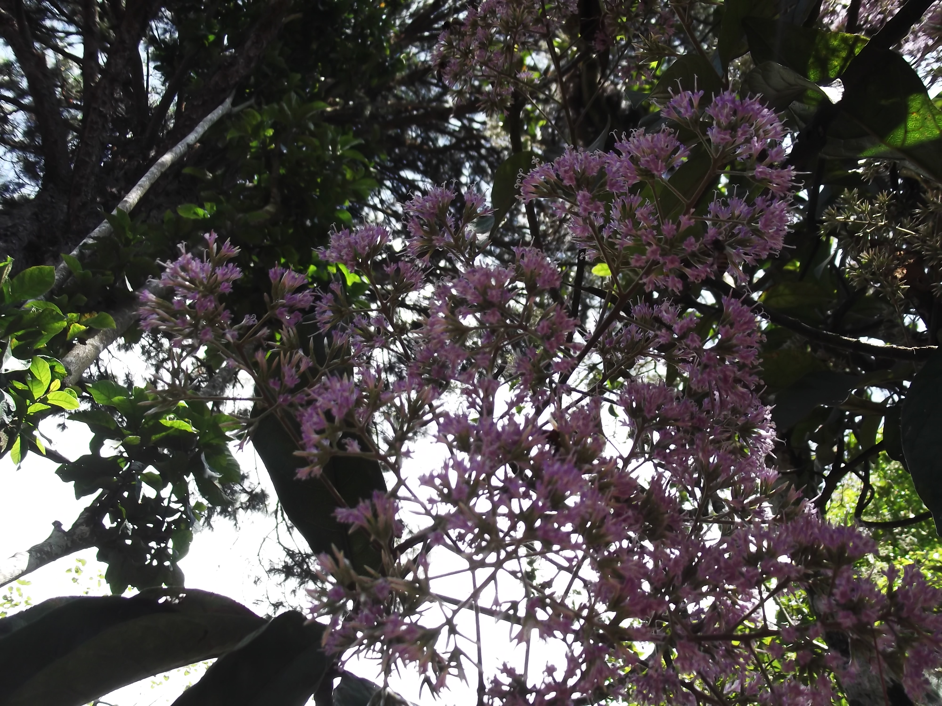 Marasuthi-very rare tree,it is available only at yercaud and 4 trees lived in the world.